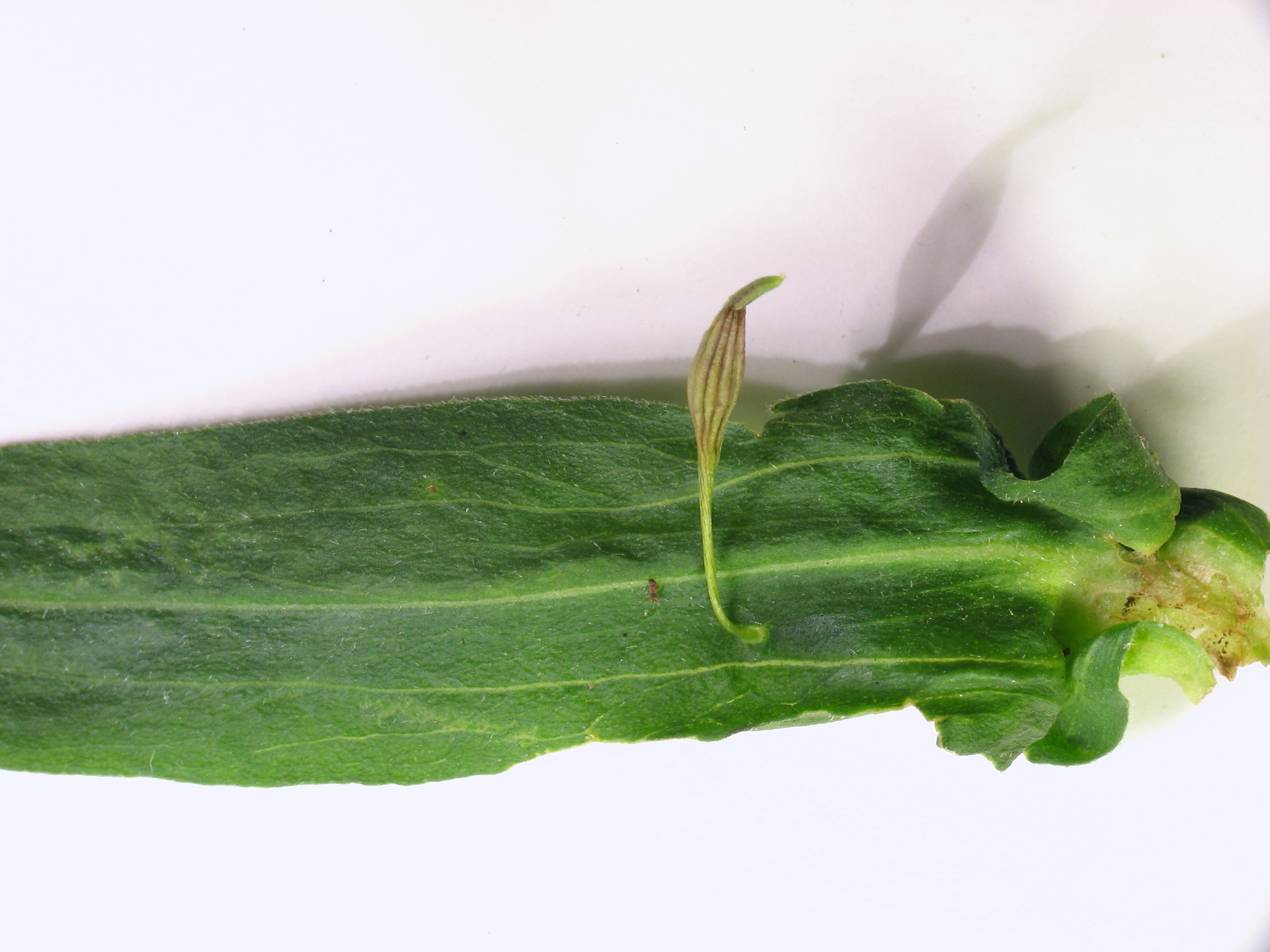 Gall by gall midge (Rhopalomyia pedicellata) on grass-leaved goldenrod (Euthamia graminifolia) leaf. Pennypack Restoration Trust, Montgomery County, Pennsylvania, USA.